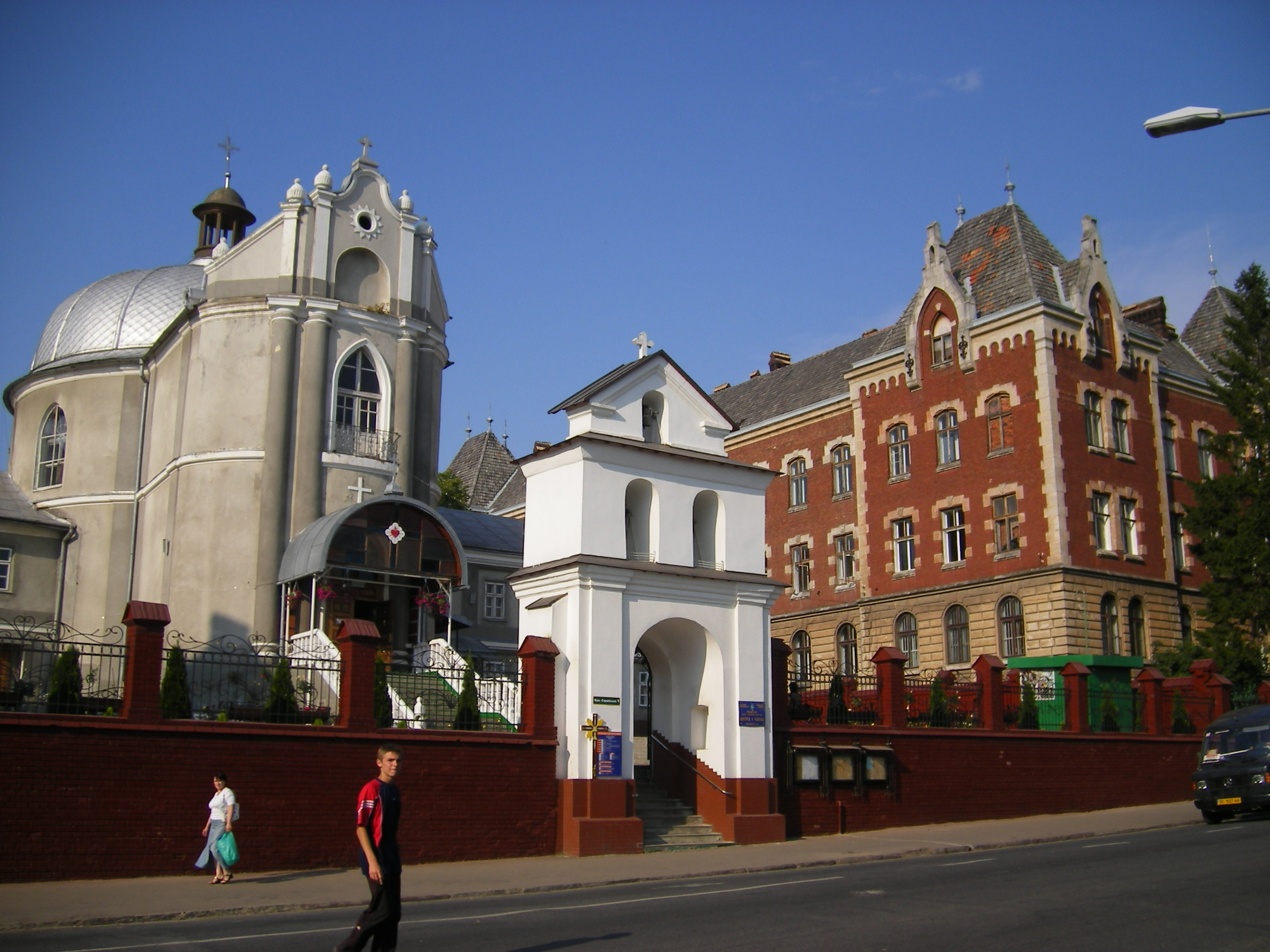 Drohobych. City centre. Basilian church and monastery